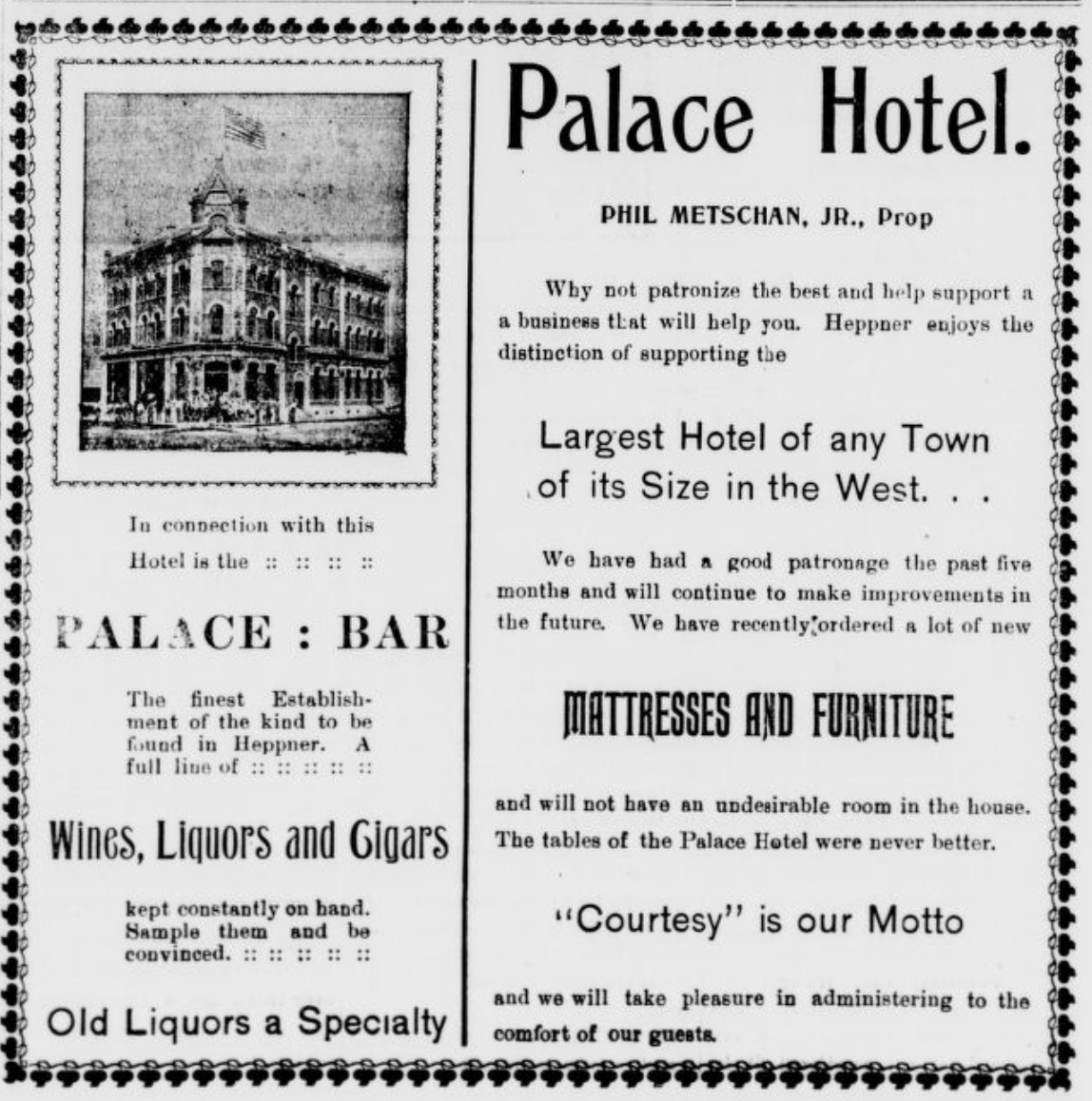 1903 Palace Hotel (Heppner, OR) Advertisement. Heppner gazette., January 01, 1903, Page 10, Image 10 Image provided by: University of Oregon Libraries; Eugene, OR.